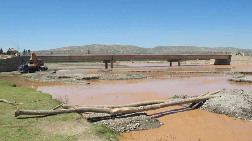 The following is the author's description of the photograph quoted directly from the photograph's Flickr page. "Afghan workers remove loads of sludge from the river below the Kuk Chenar (Dutch) Bridge in Baghlan Province. The bridge was secured during Operation Taohid II, an Afghan-led operation in the North designed to defeat the insurgency, provide humanitarian supplies to the people, and enable development projects in the area. "